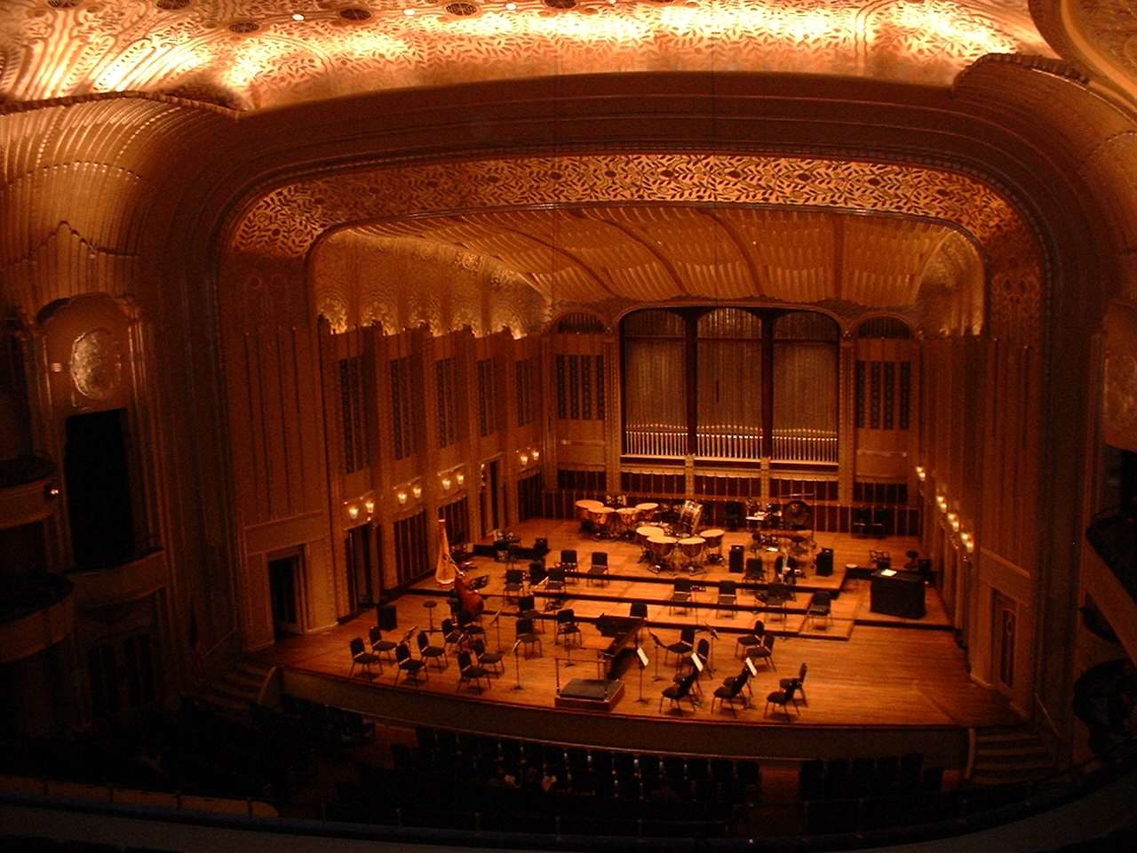 The stage at Severance Hall, Cleveland, Ohio, USA prior to a Cleveland Orchestra concert. (my DSCF0280)